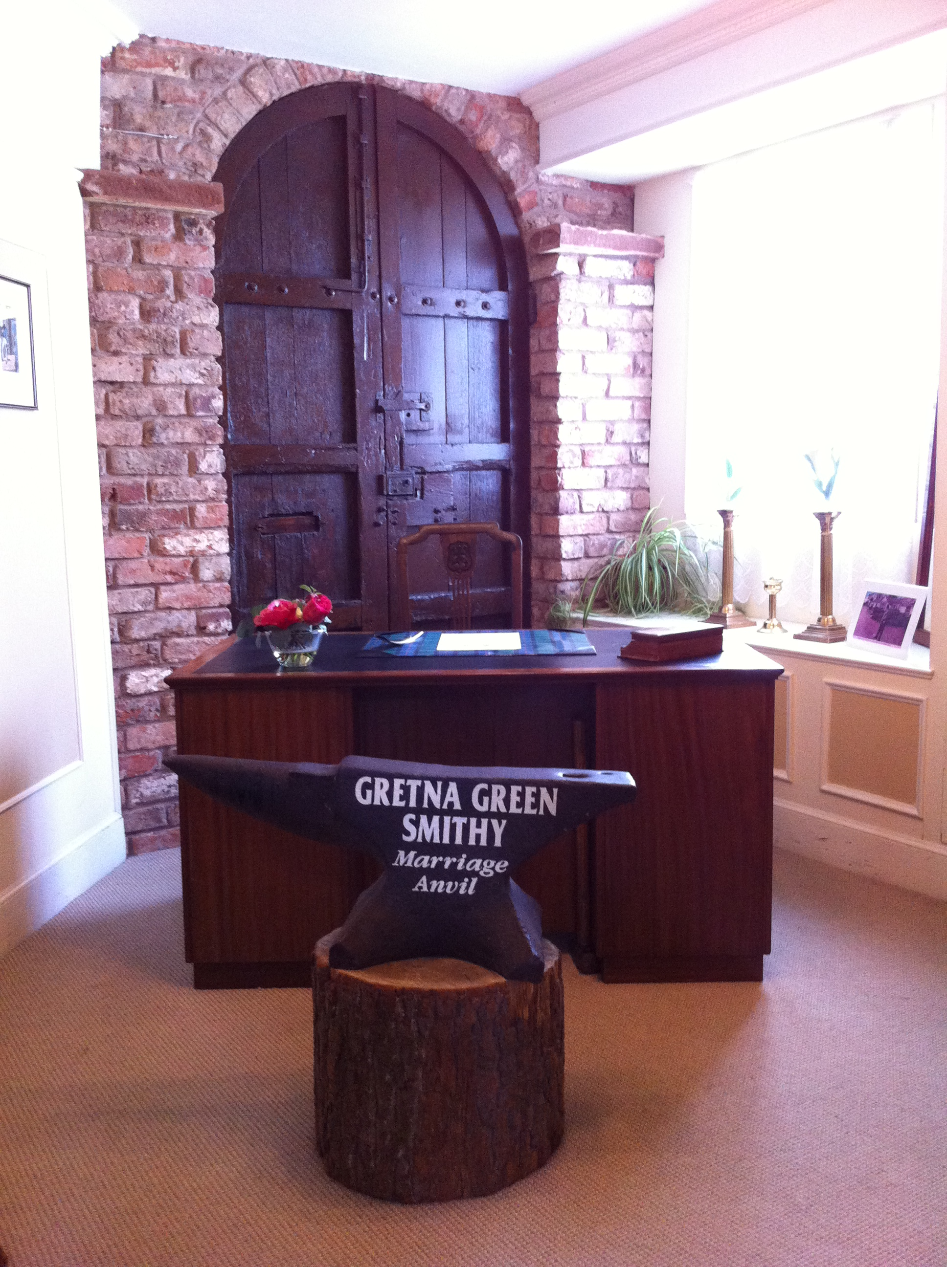 A picture of Richard Rennison's office at Gretna Green